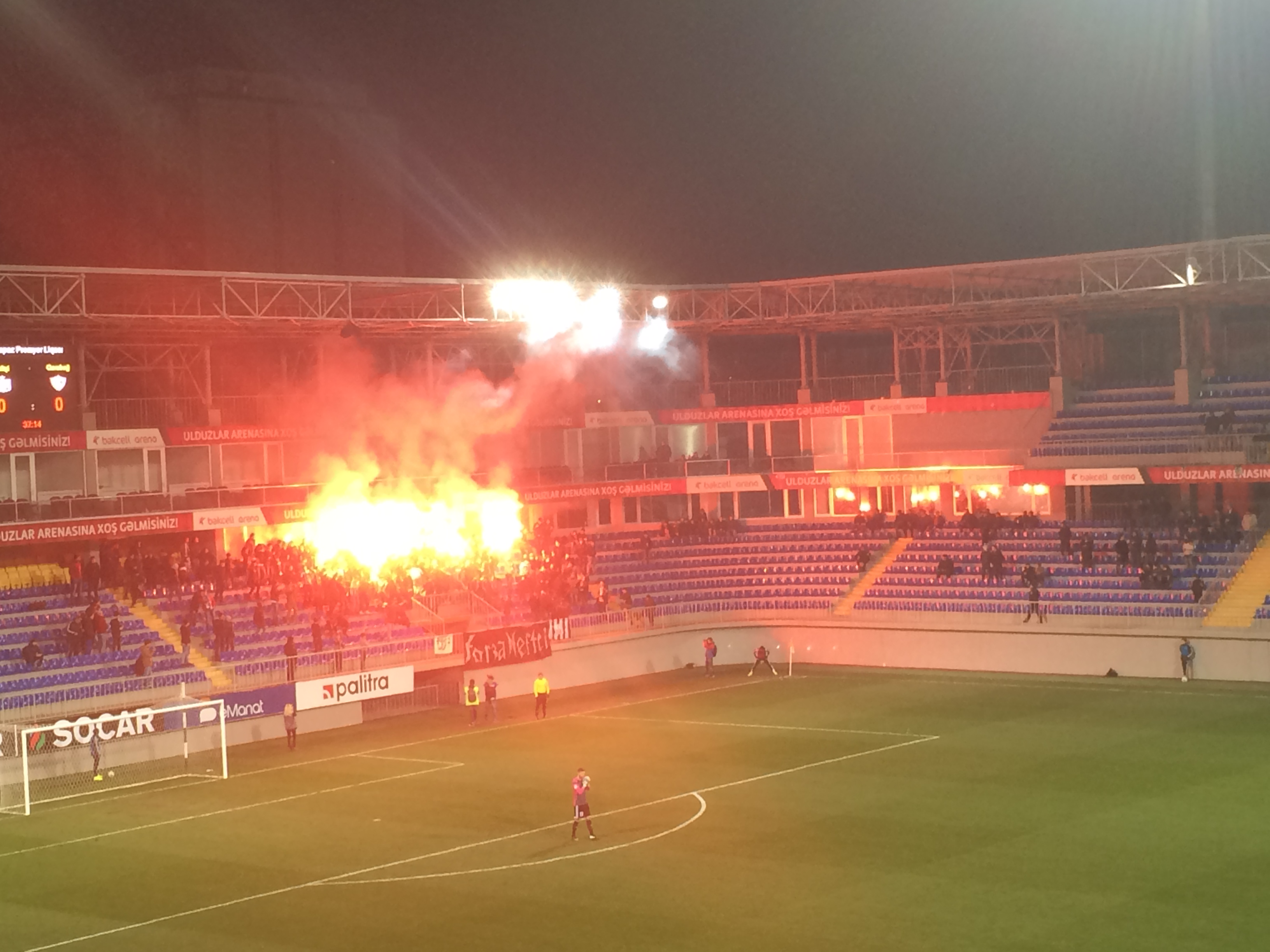 Neftchi supporters during match againgst Qarabagh